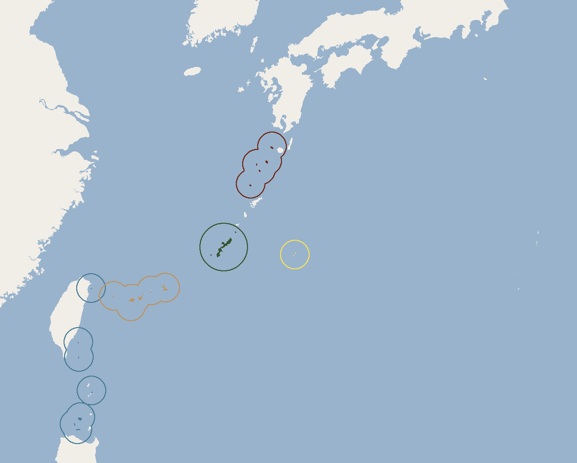 Geographilcal distribution of Pteropus dasymallus according to Museum specimens